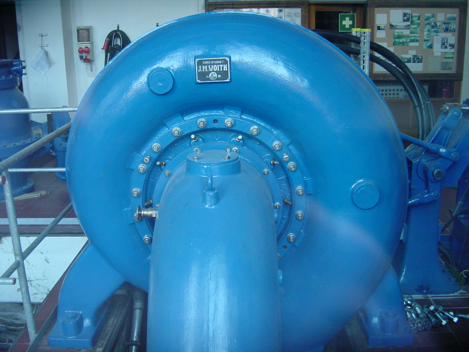 Francis turbine of hydroelectric power station in Dorfhain, Saxony, Germany